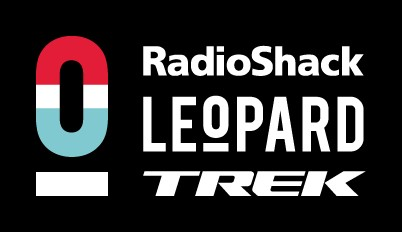 Logo of Leopard Team RadioShack-Nissan-Trek.